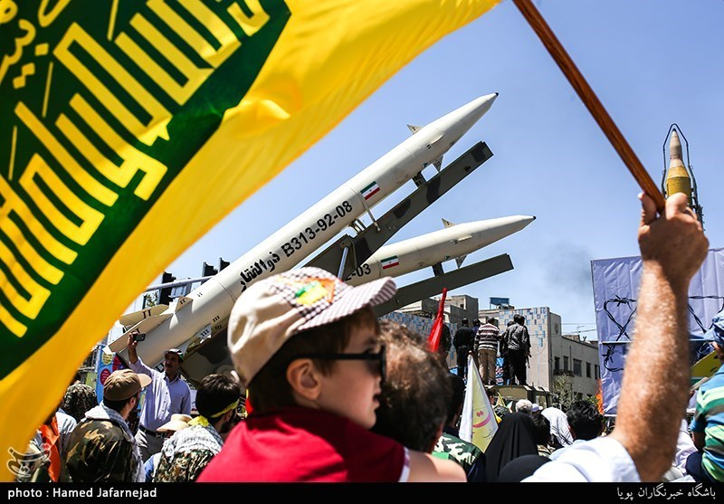 Zolfaghar